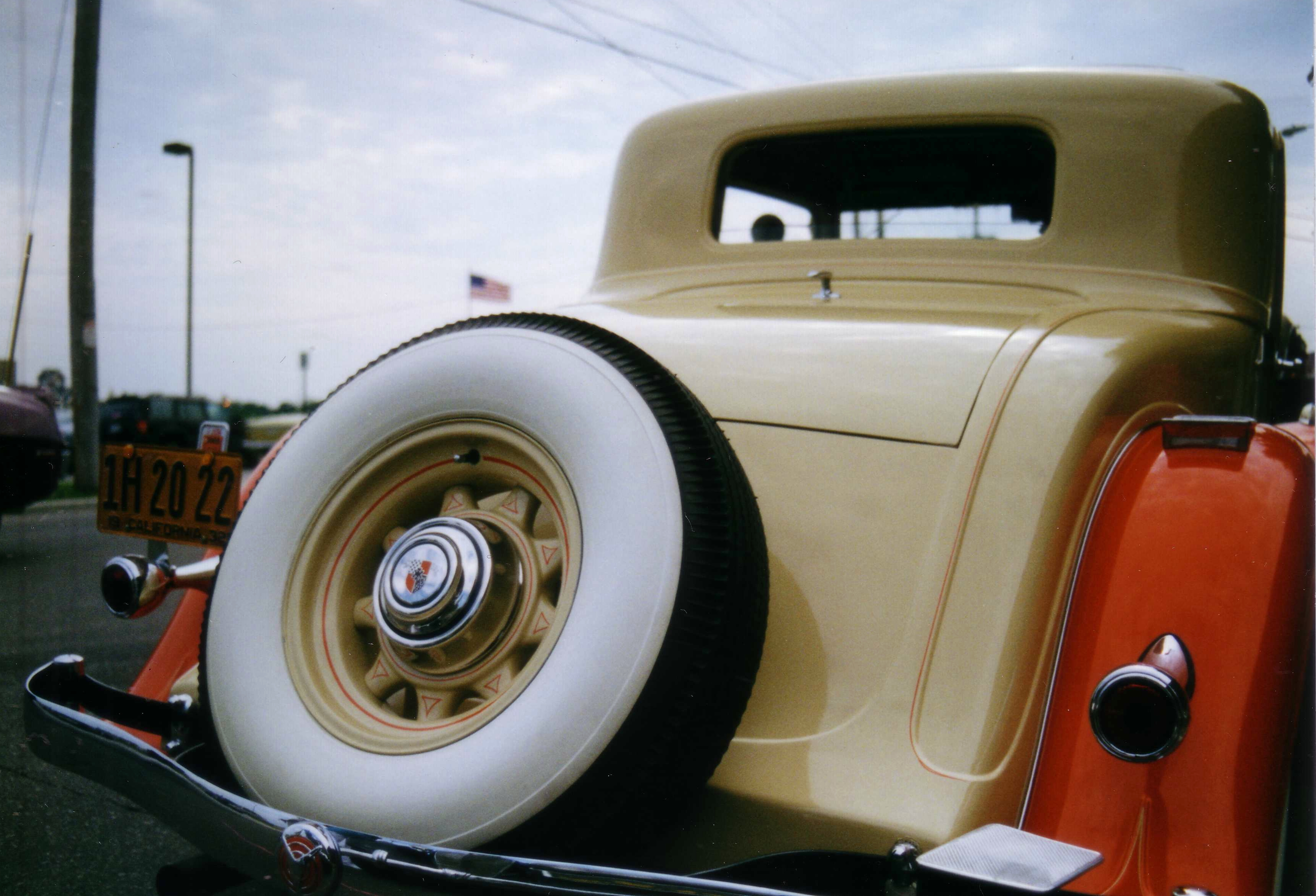 1932 Nash 1082R Ambassador Rumble Seat Coupe — Rear view of this car with spare tire mount. Picture taken at antique car show in Kenosha, Wisconsin.